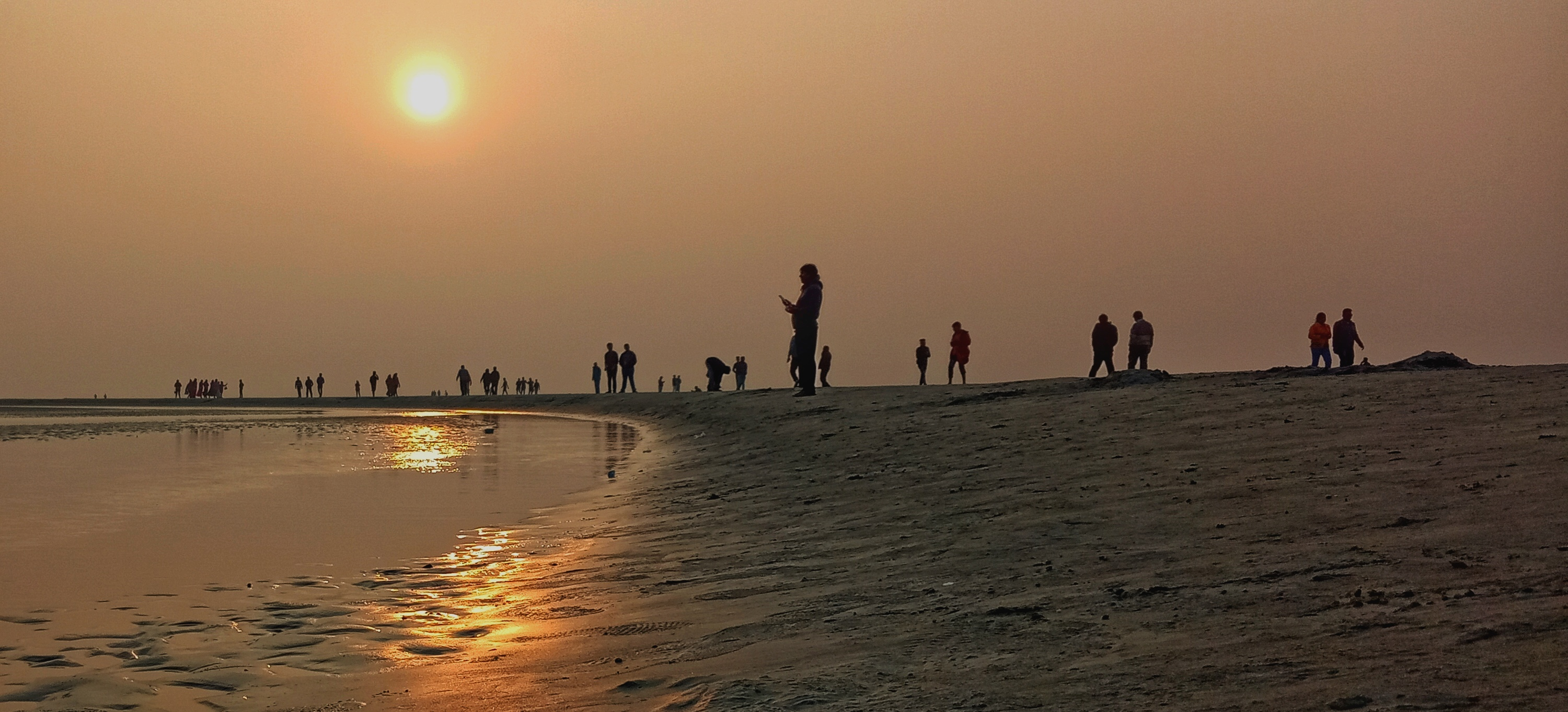 Bakkhali Sea Beach Photo: Shahin